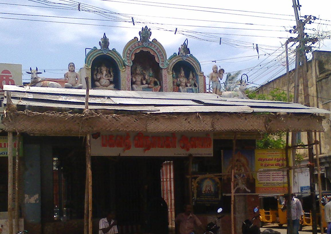 Kumbakonam Bagava Vinayakar Temple கும்பகோணம் பகவ விநாயகர்கோயில்